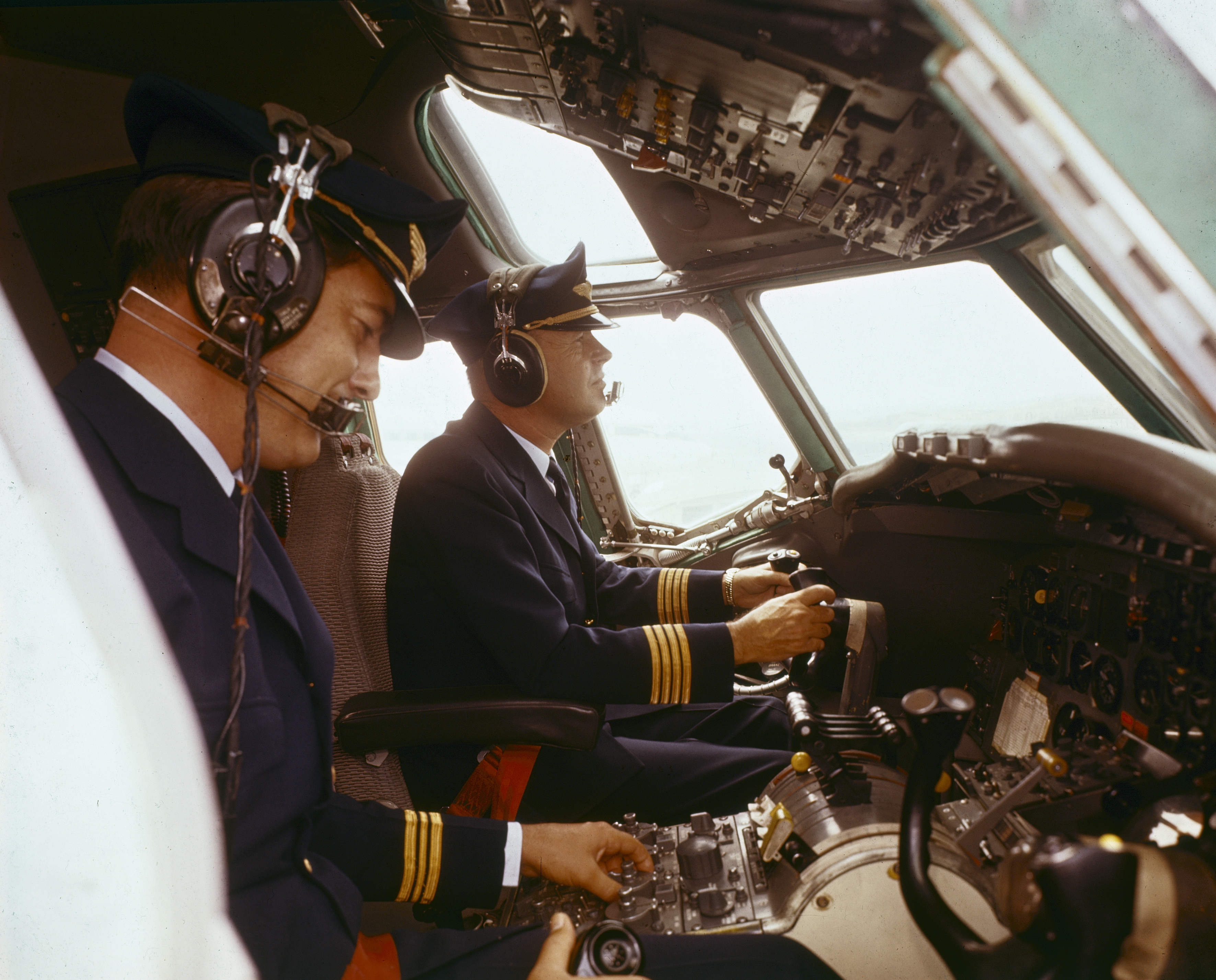 SAS DC-8-33. Dan Viking. Interior of aircraft. Flight deck, cockpit